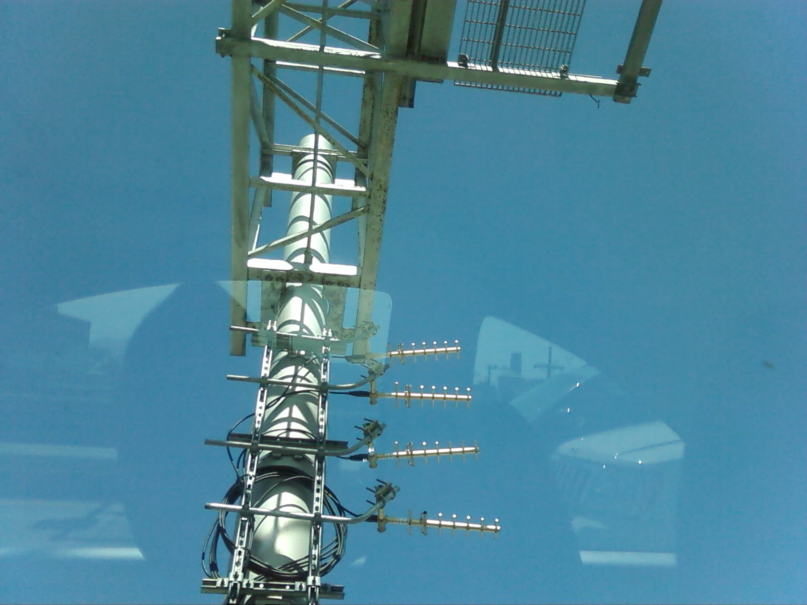 Are these for communicating with FasTrak devices or what? Wow, there must be a lot of unnecessary signal loss due to all that extra looped cable! This doesn't look like a professional install at all! Taken on an elevated highway in San Francisco, while stopped in traffic. Yes, these are for communicating with FasTrak devices.[1]